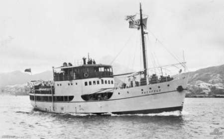 335 GRT cargo and passenger vessel Matafele in 1938. She was built by Hong Kong & Whampoa Dockyard for for Burns, Philp & Co. She was commissioned into the Royal Australian Navy in 1942 as HMAS Matafele and was lost with her entire crew in an accident in the Coral Sea in June 1944.